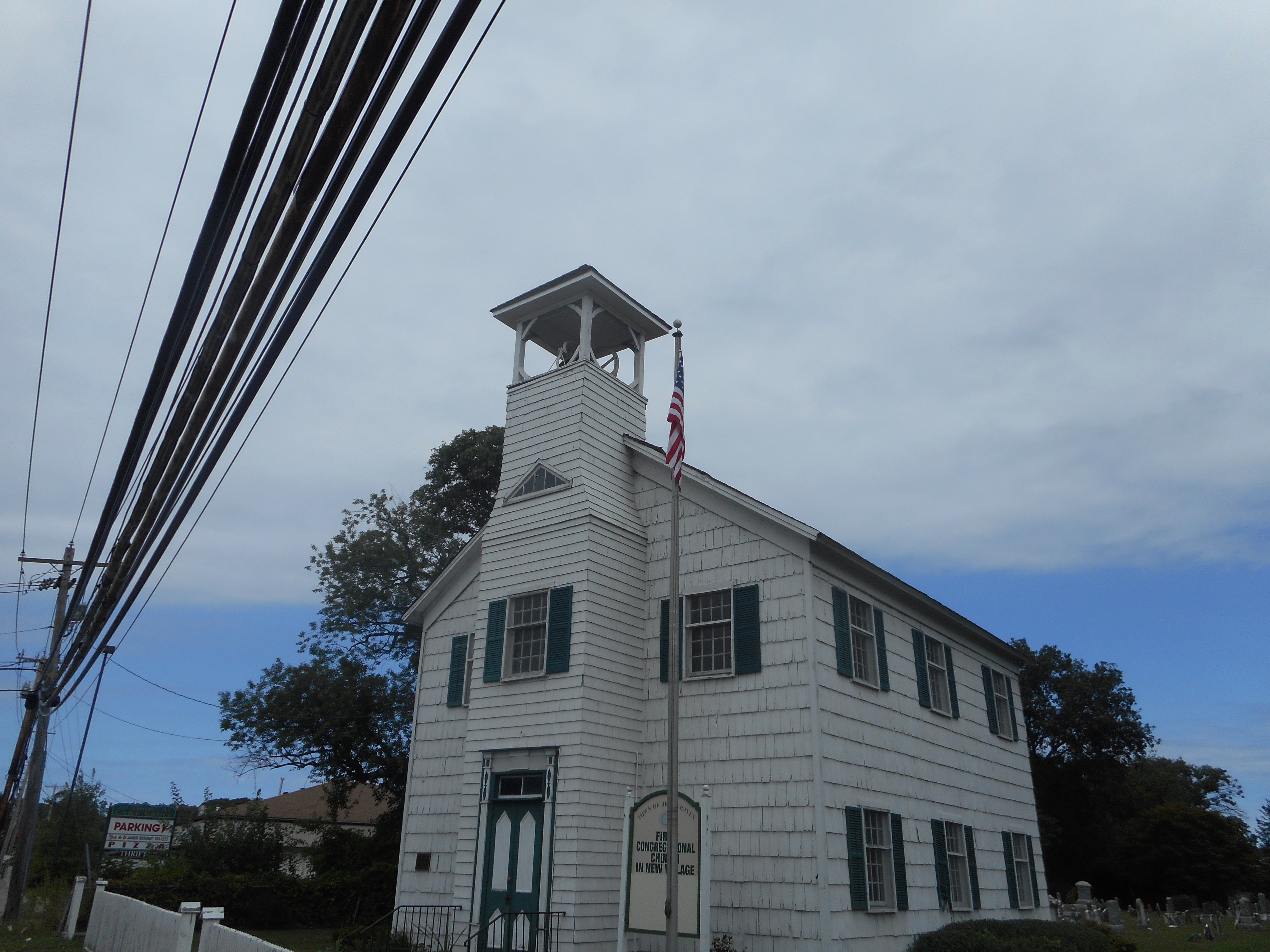 The First Congregational Church of New Village in Lake Grove, New York. Further details to come later.